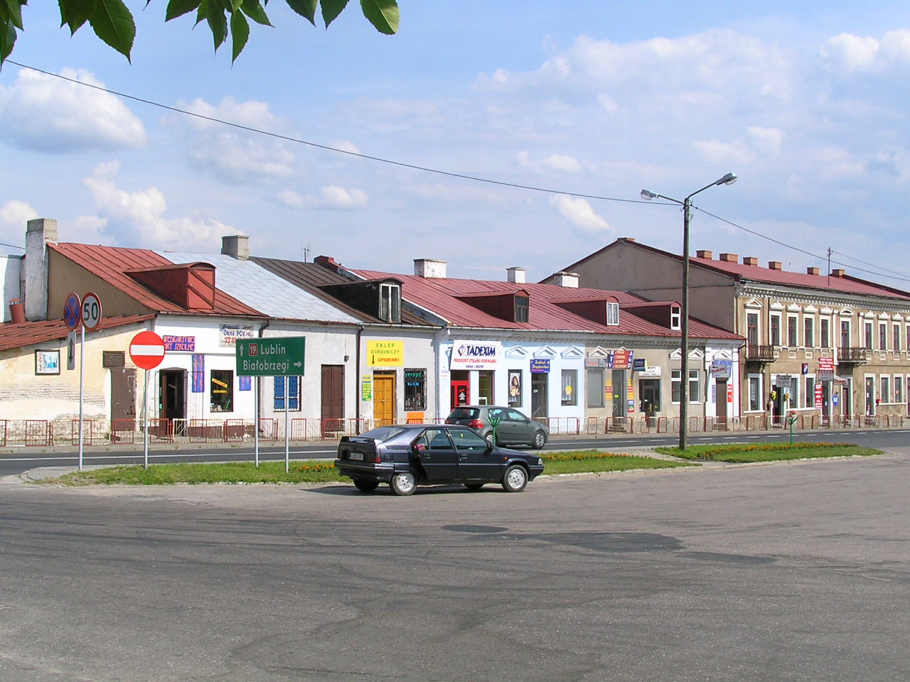 autor: Yarek shalom 13:43, 23 October 2006 (UTC)yarek shalom